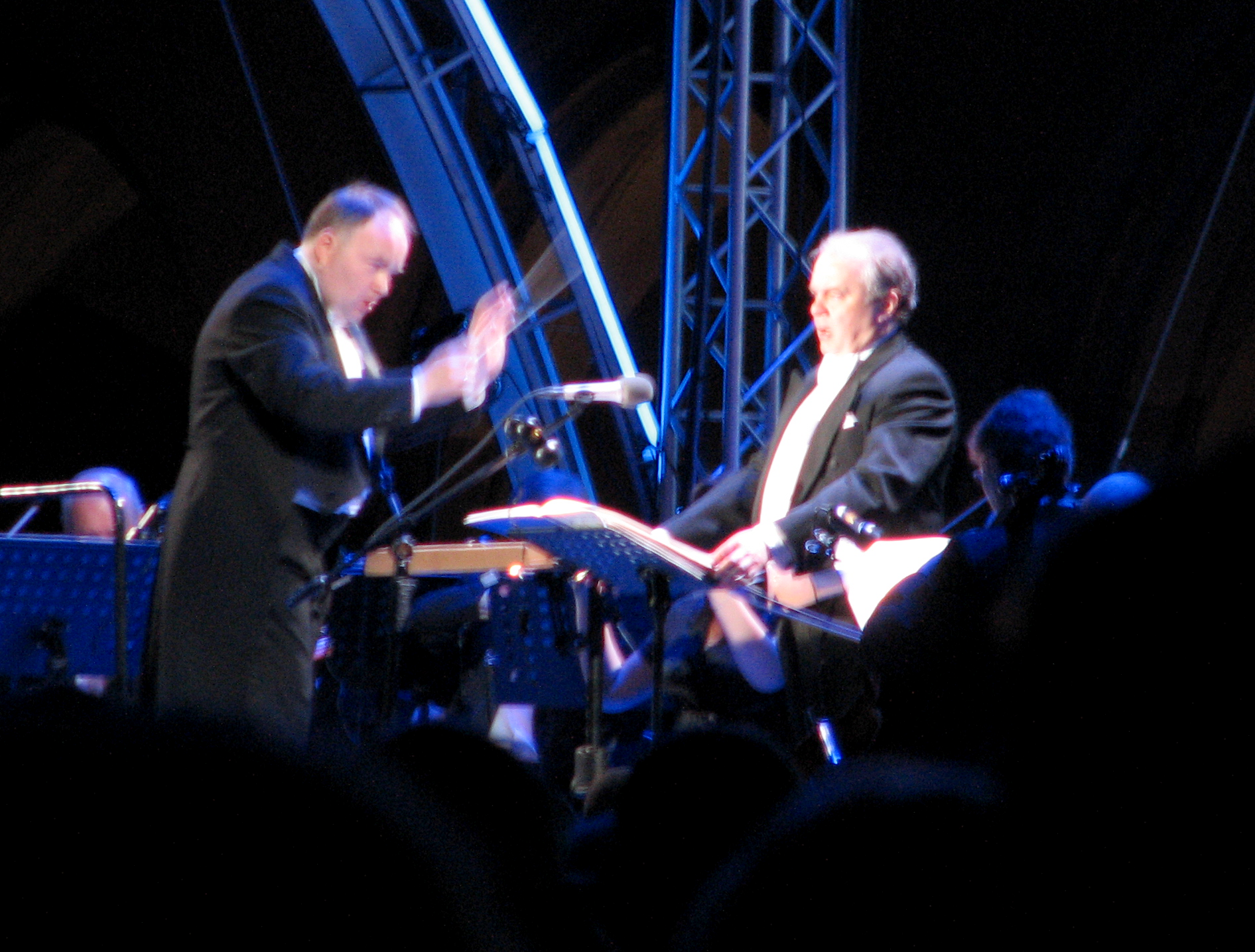 Original information in Image:Gorecki Beatus Vir.jpg